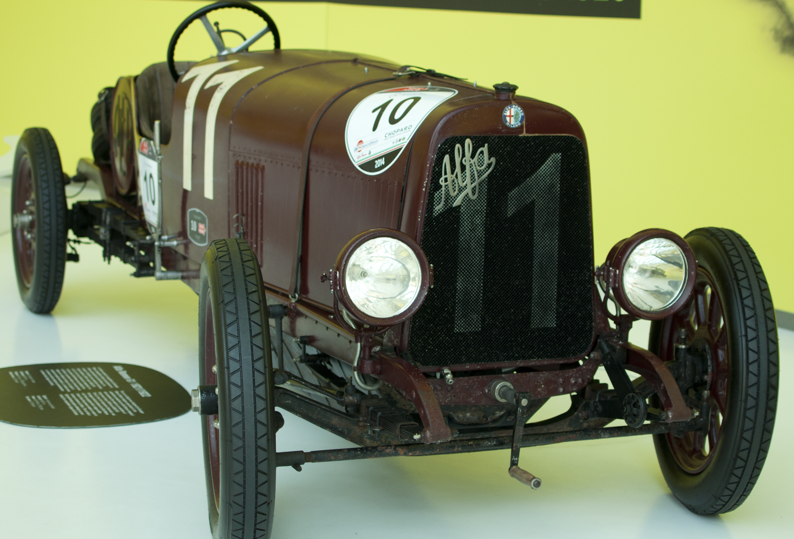 1921 Alfa Romeo G1 s/n 6018 in the Museo Enzo Ferrari on 5 May 5 2015. (The banner about "40/60" is for a different car.) Spent most of its life in Australia/Tasmania. Claimed to be the only G1 left today, and the oldest Alfa Romeo still in existense. Rebuilt in the 2010s from a "sedan"/torpedo to a "tipo corsa" (race car).[1] In Mille Miglia and Enzo Museum in 2014/15.[2] Auctioned for USD 445,000 in 2018.[3]